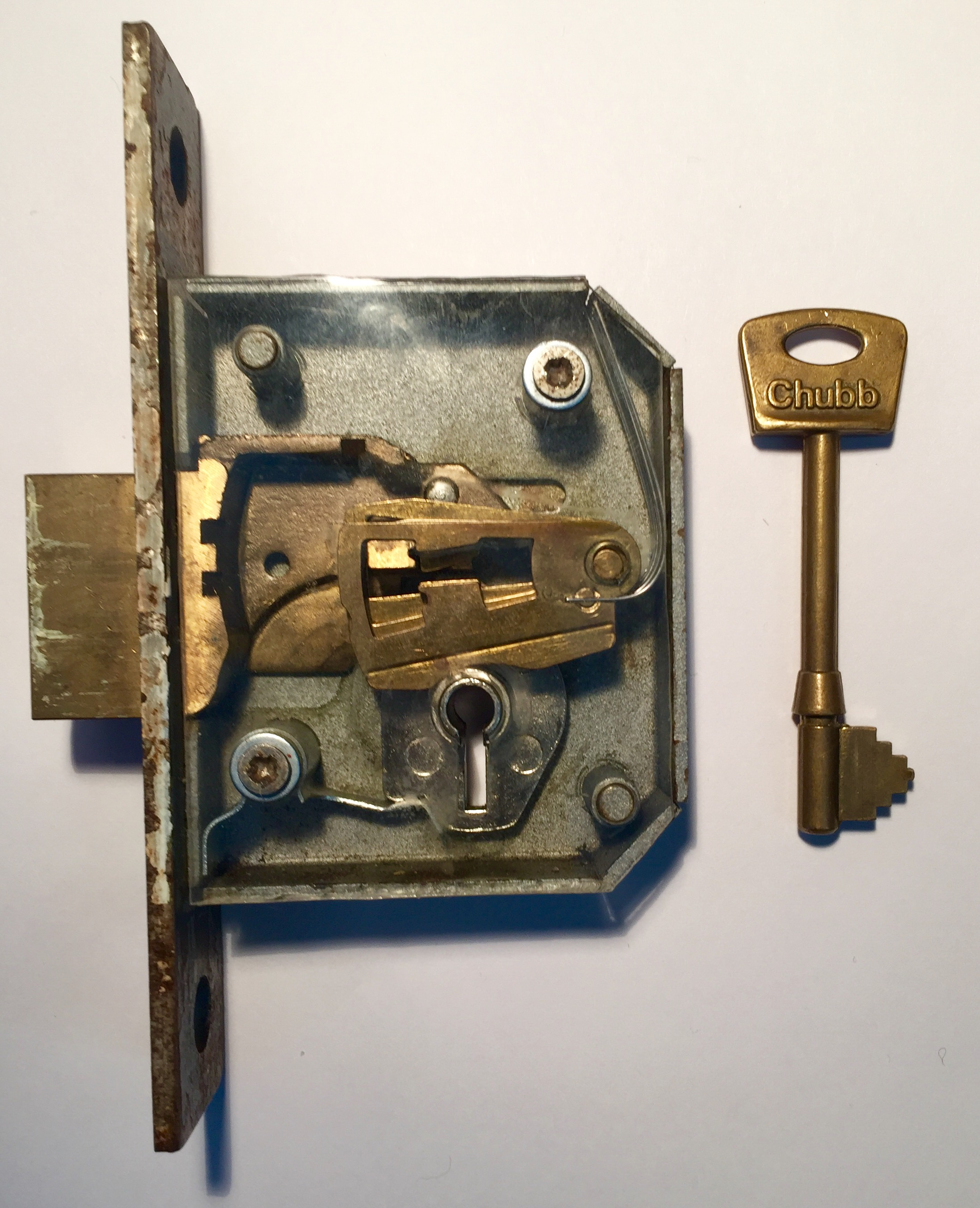 A common type of mortise lock in the UK, of the lever lock type.